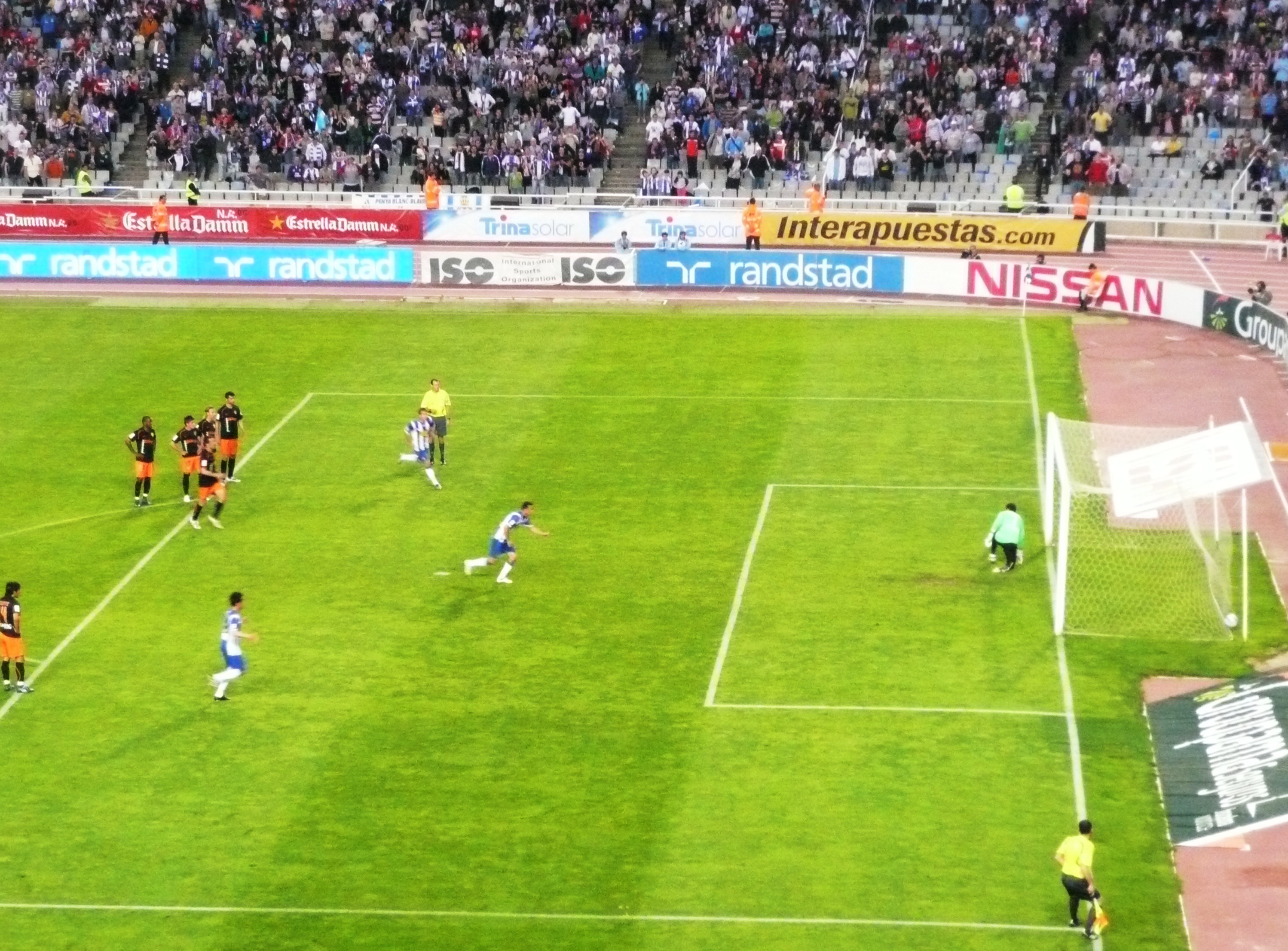 Penalty kick,Espanyol - Valencia FC at Luís Companys Olympic Stadium (Barcelona), 03/05/2009